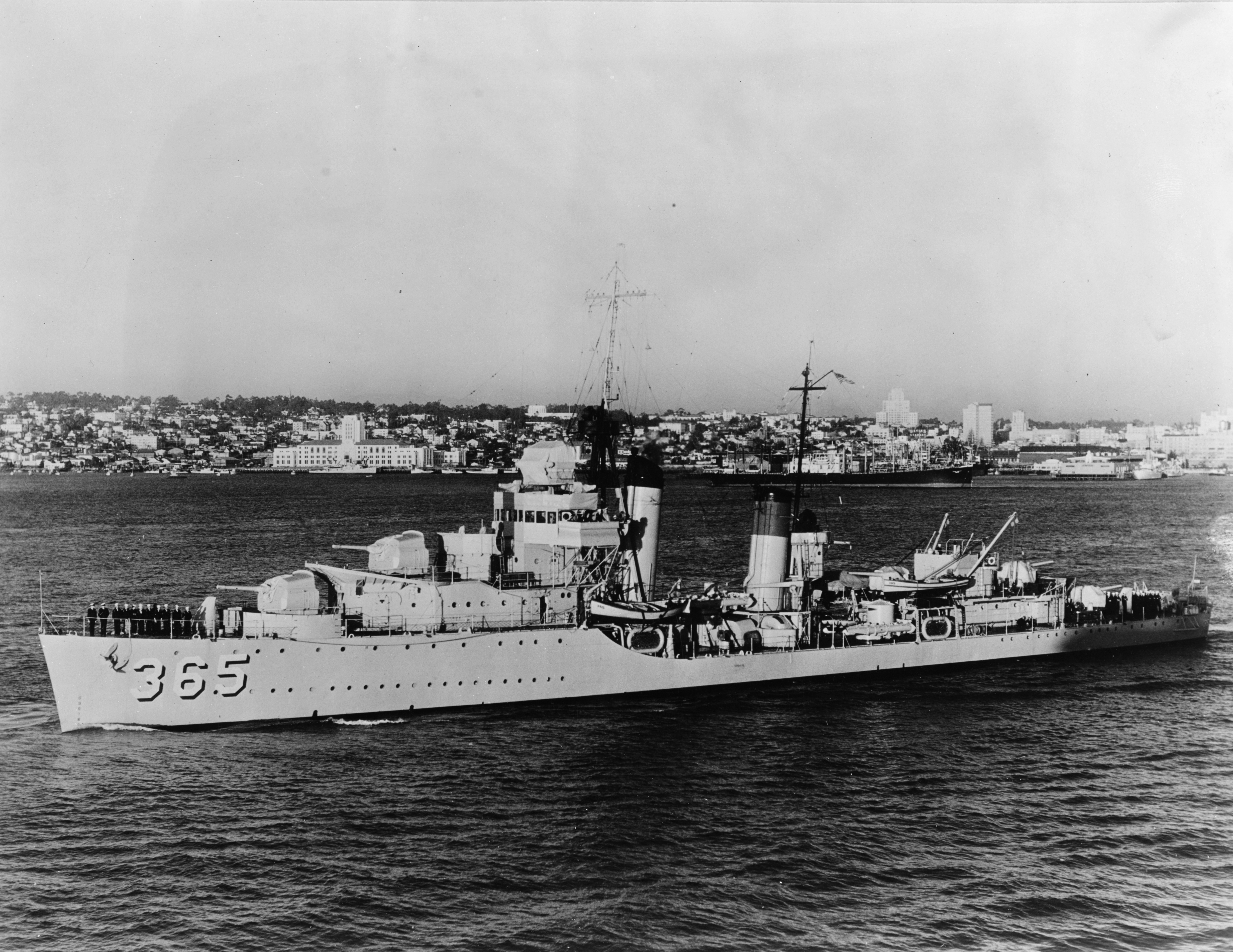 The U.S. Navy destroyer USS Cummings (DD-365) underway in San Diego harbor, California (USA), circa in 1938.